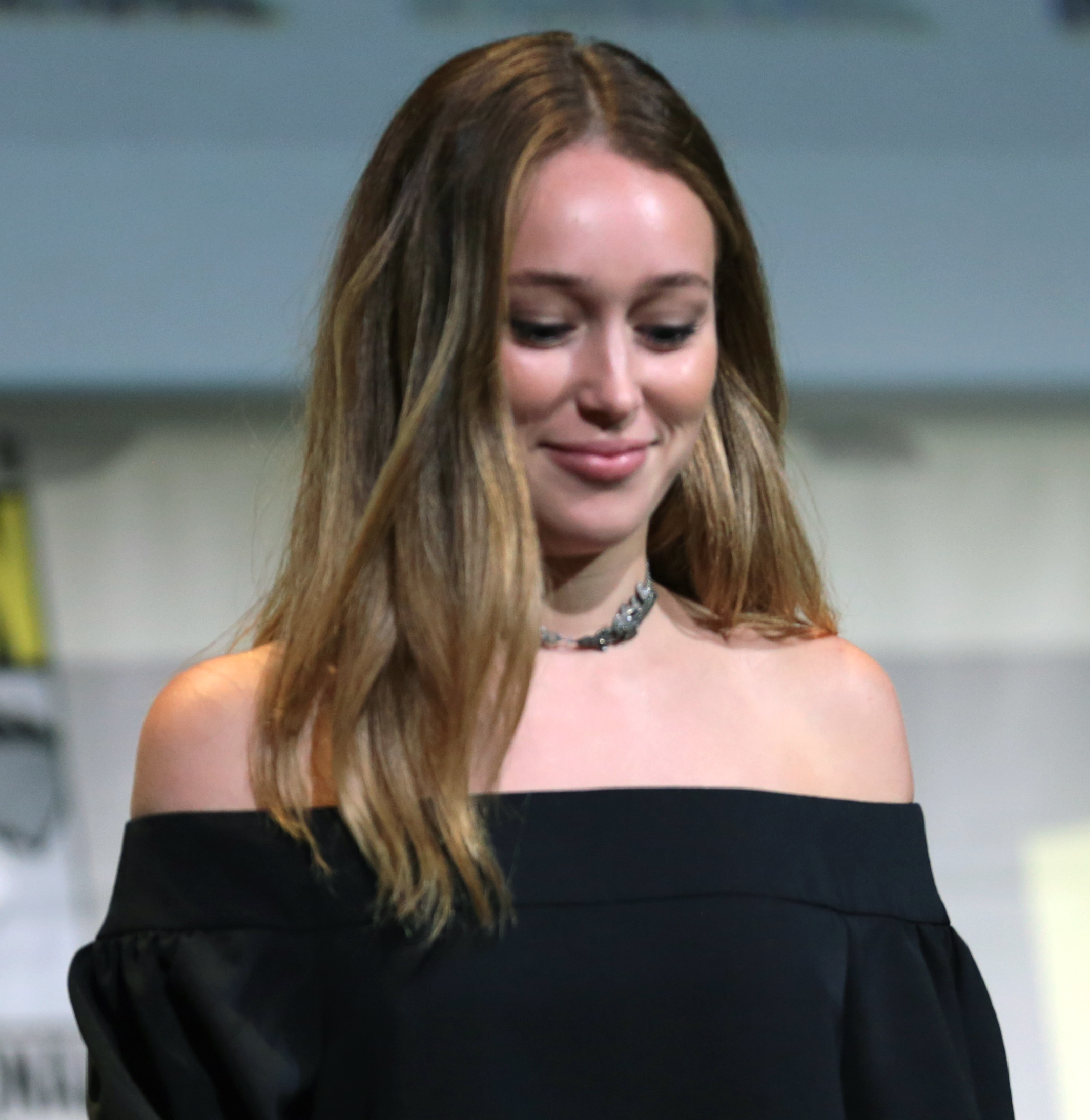 Alycia Debnam-Carey speaking at the 2016 San Diego Comic Con International, for "Fear the Walking Dead", at the San Diego Convention Center in San Diego, California.